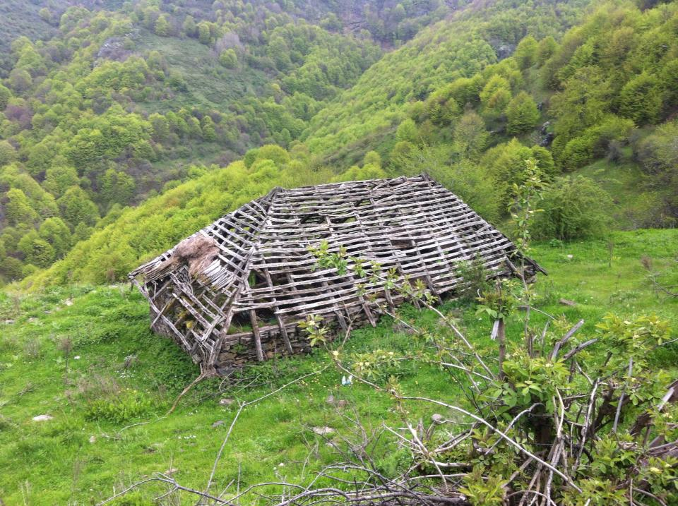 Natyra e Brezes